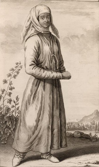 Queen Rambolamasoandro Queen consort of King Andrianampoinimerina